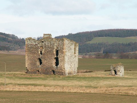 Lordscairnie Castle, built c. 1450 by the Earls of Crawford, the Lindseys, a powerful family north of the border. An L plan tower house with 5 storeys. Looking north.